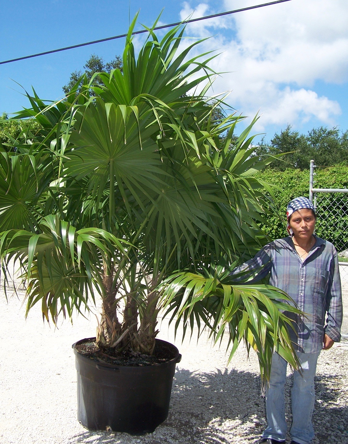 Thrinax Radiata (Florida Thatch Palm)